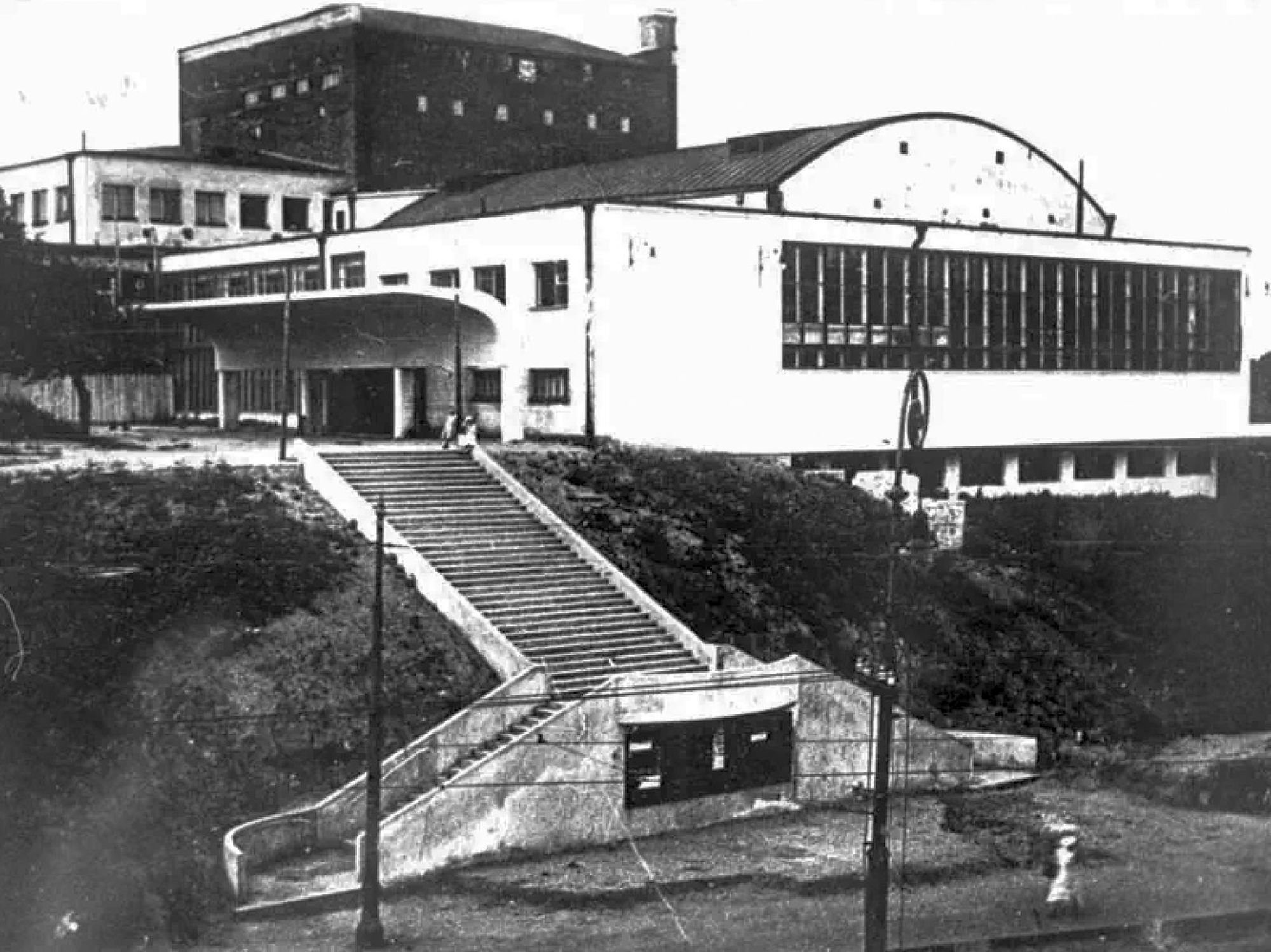 The Workers Club Serp i molot in Moscow. Designed by Ignati Milinis and built 1929–33